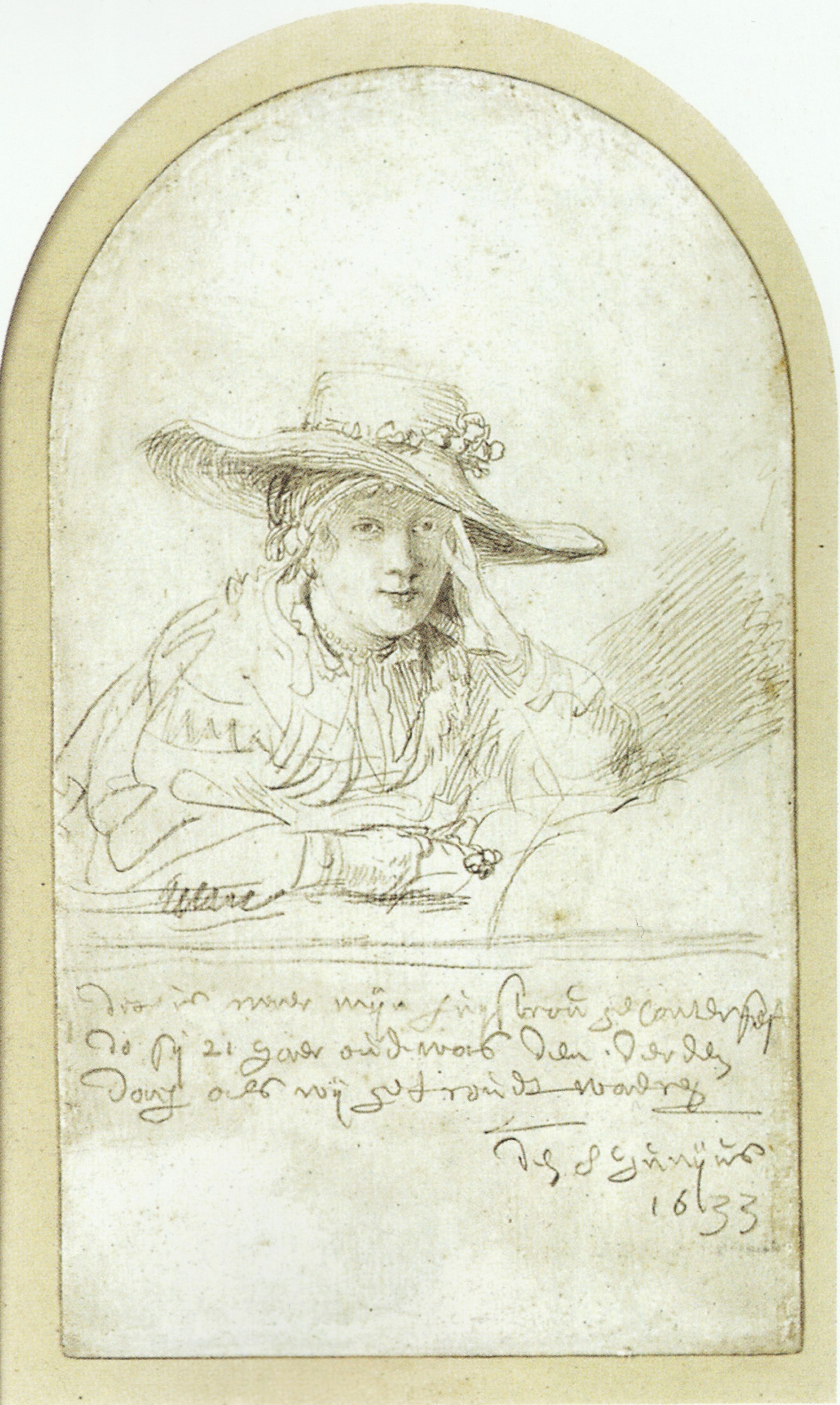 Portrait of Saskia made Rembrandt, the inscription reads: 'dit is naer mijn huysvrou geconterfeyt do sy 21 Jaer oud was den derden dach als wij getroudt waeren den 8 Junijus 1633'